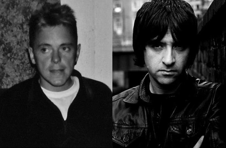 Bernard Sumner and Johnny Marr of the British band Electronic